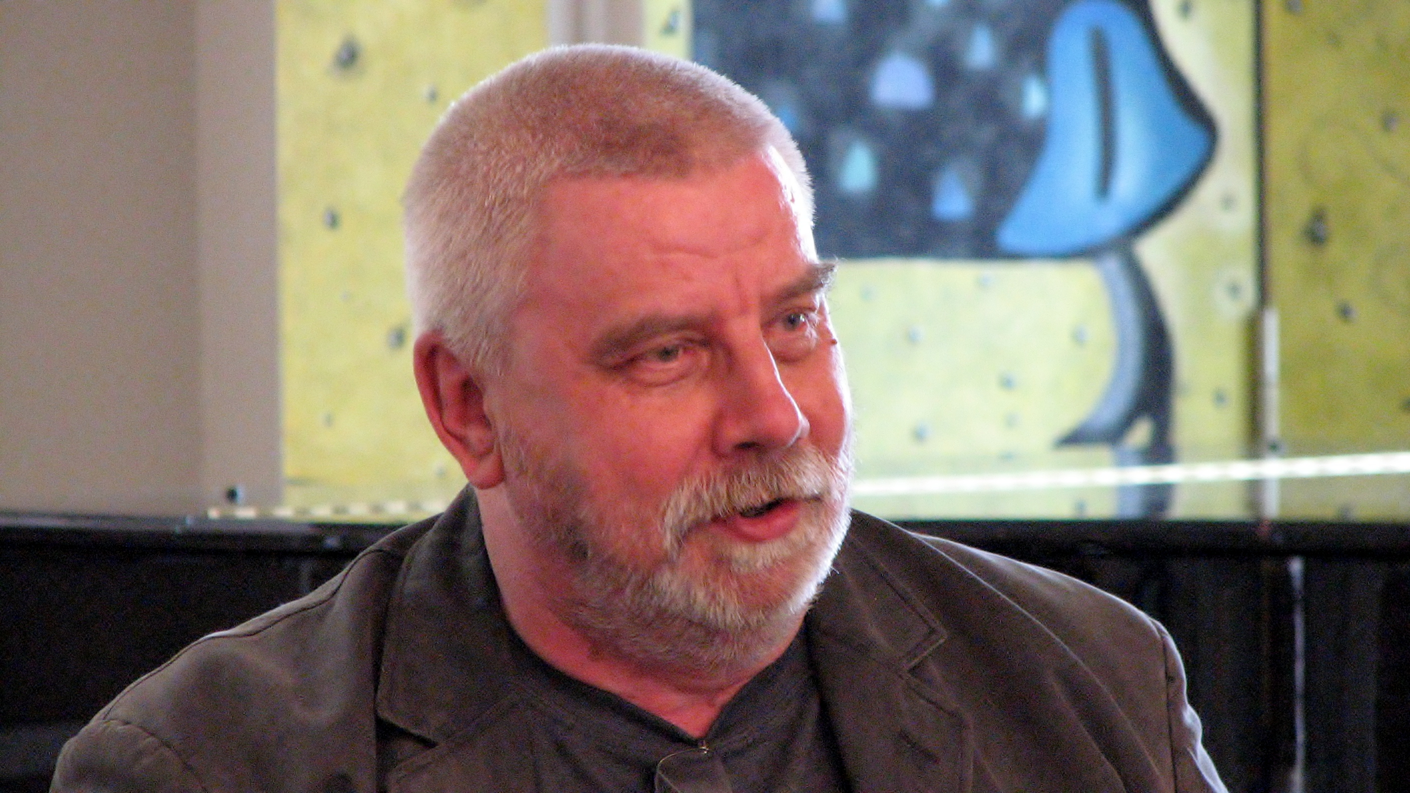 Ilmar Trull performing in festival HeadRead